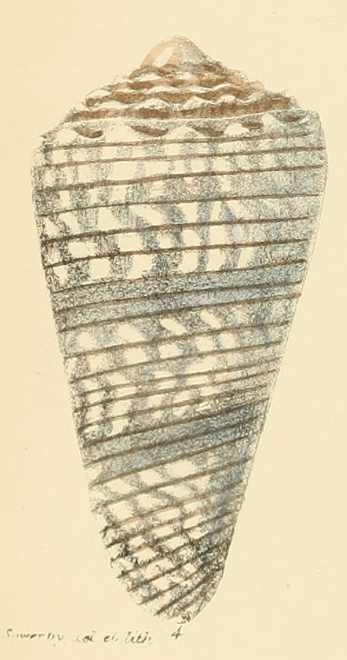 Conus zonatus